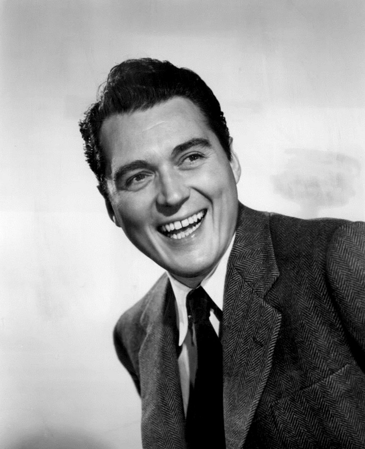 Photo of William Bishop in the role of Rudolph Strobel from Anna Lucasta (1949 film).